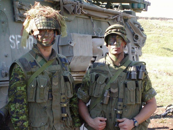 Members of the Canadian Grenadier Guard in Bosnia.